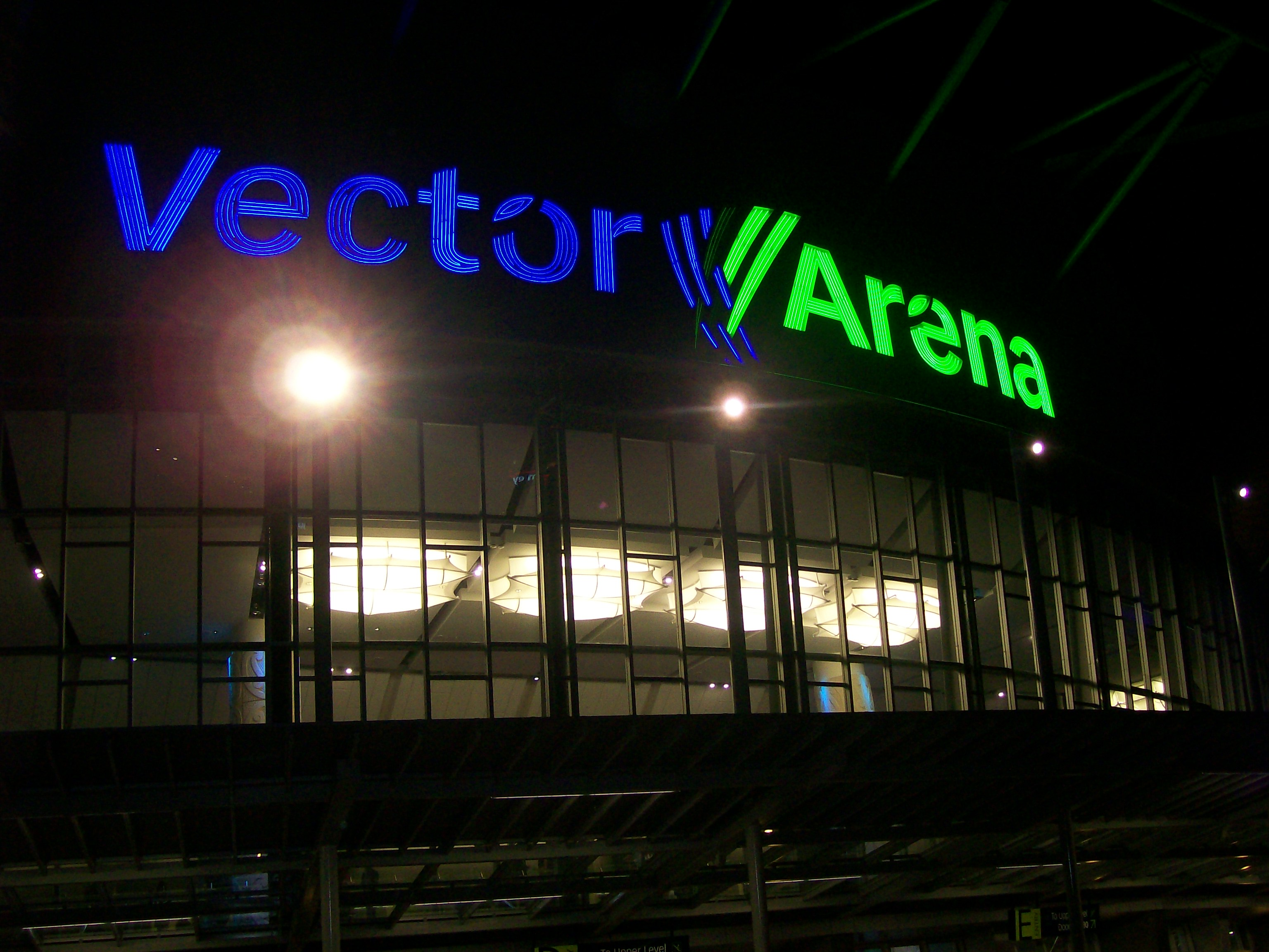 Vector arena at night before chili pepper's concert.